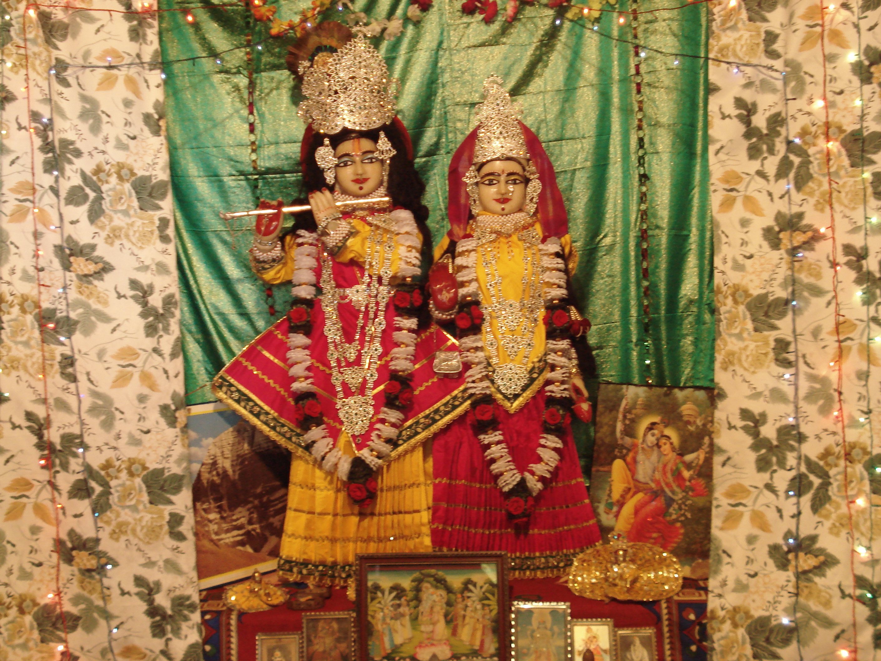 Radha Krishna idol taken on the occasion of Radhastami in Sankirtan Bhawan Dharmik Nyas, Vrindavan